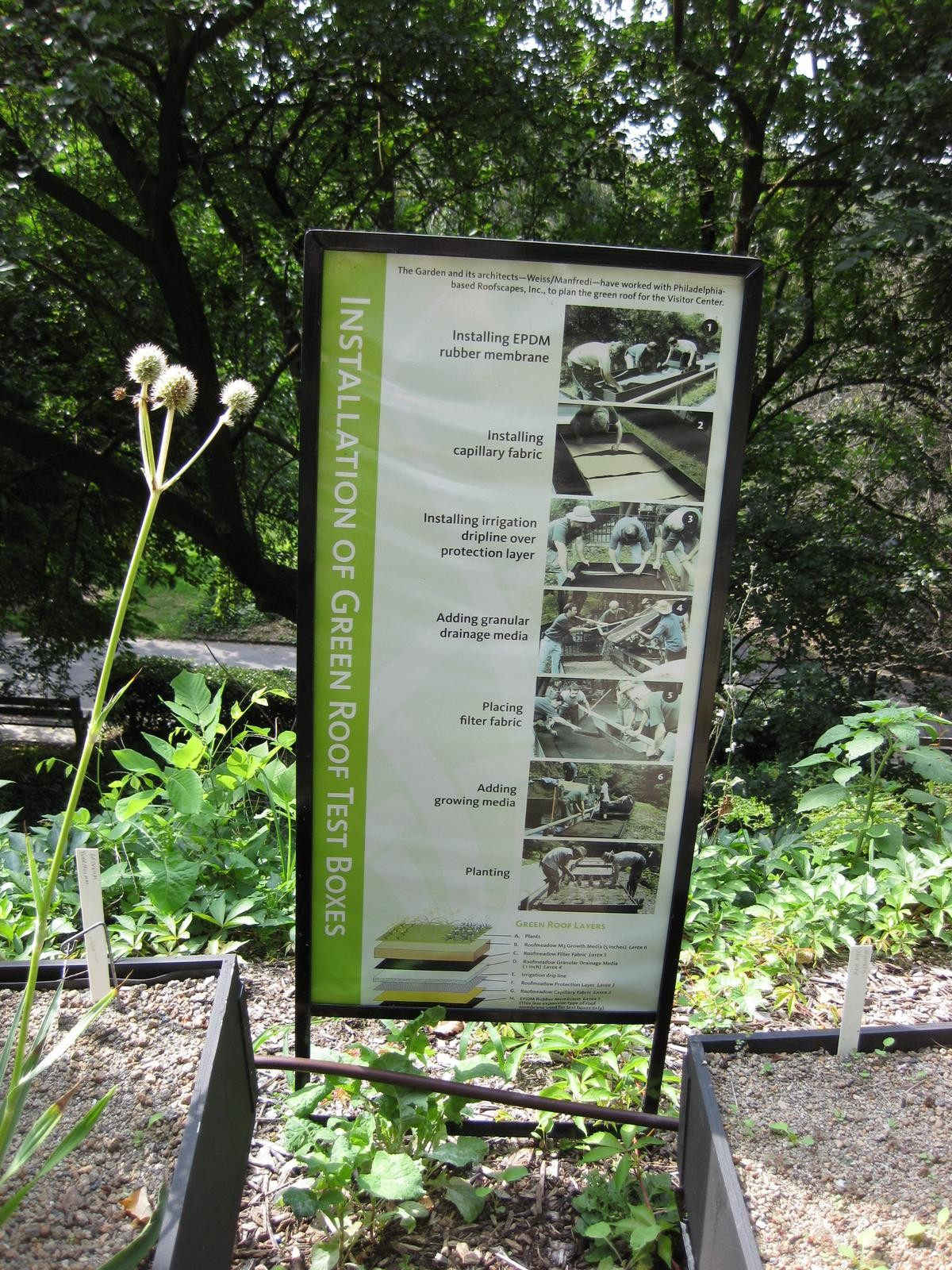 Photographed at Brooklyn Botanic Garden (New York) in September